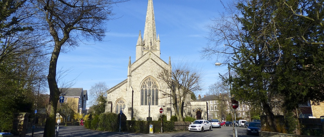 A photo of St John's Blackheath